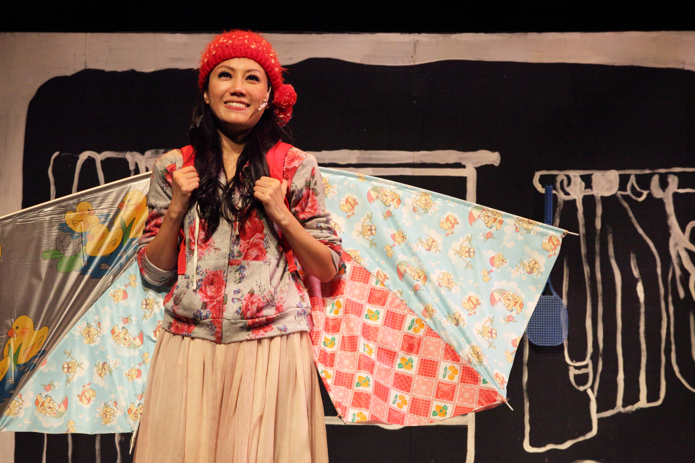 Captured by Francesca L.